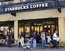 Starbucks Store on the place de l'Odéon in Paris, France by: Anthony Atkielski date: July 25, 2004